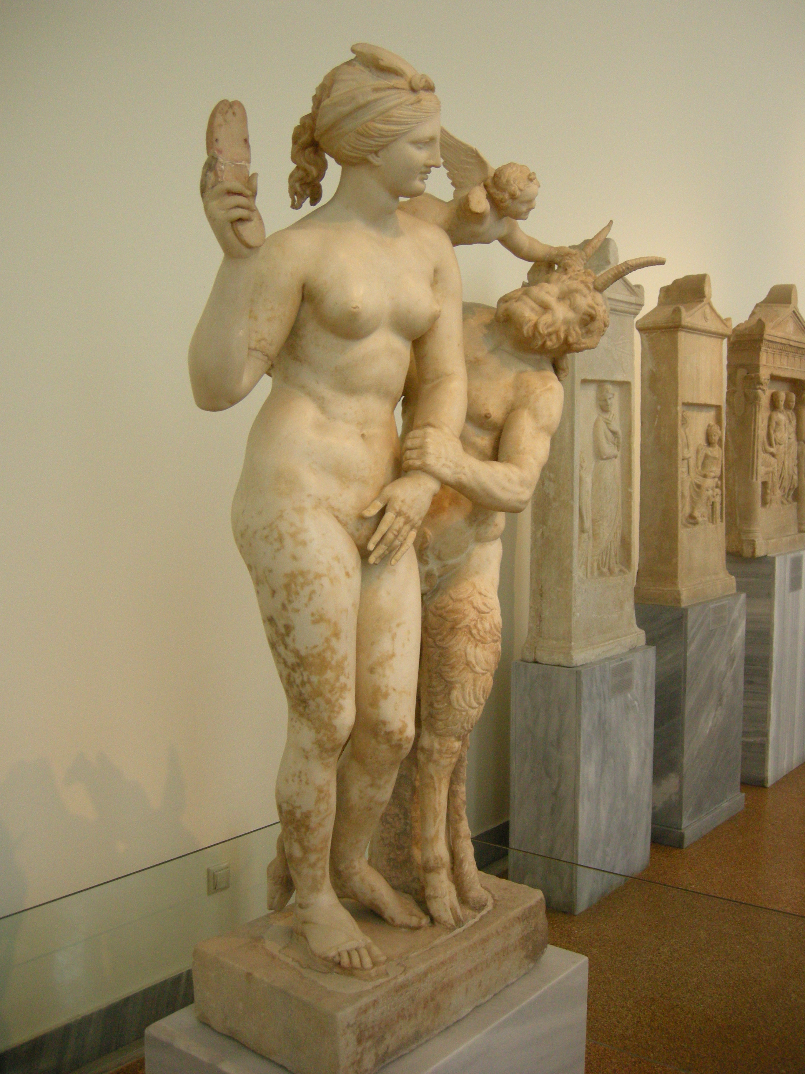 Aphrodite, Pan and Eros